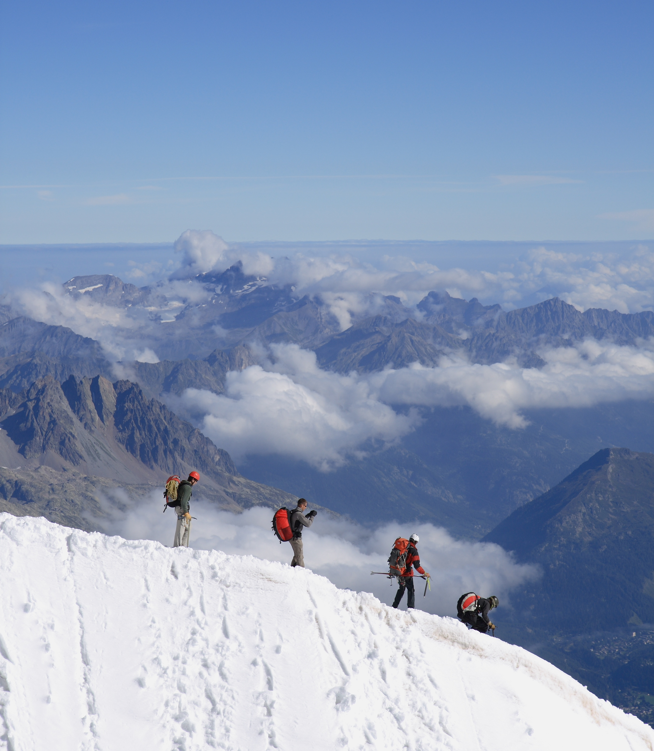 Mountaineers, leaving the top station of the Aiguille du Midi